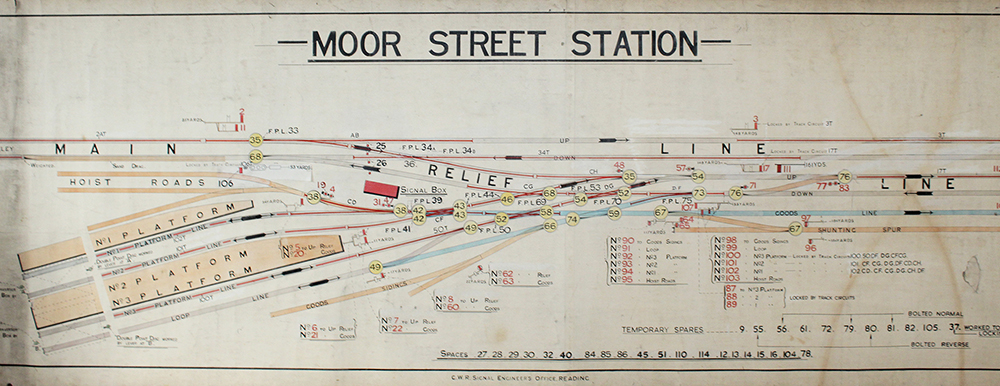 Birmingham Moor Street Railway Station track diagram - 1922. Sold at auction in 2015, with the description "GWR hand coloured Signal Box Diagram BIRMINGHAM MOOR STREET dated 22/8/13. Some edge tears into the linen backing but overall good and certainly a very historic item."